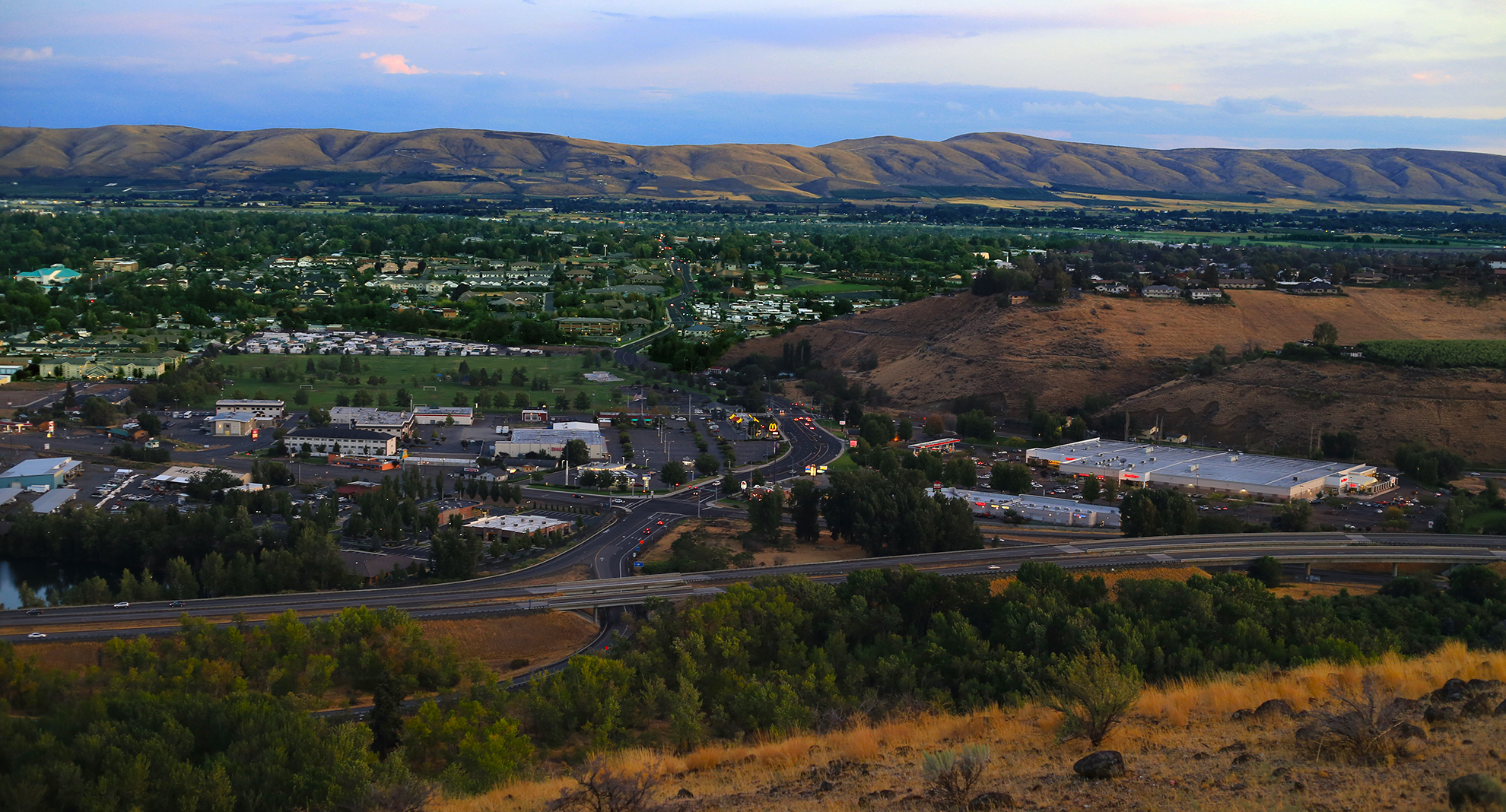 Yakima, Washington - 40th Ave looking south from Lookout Point